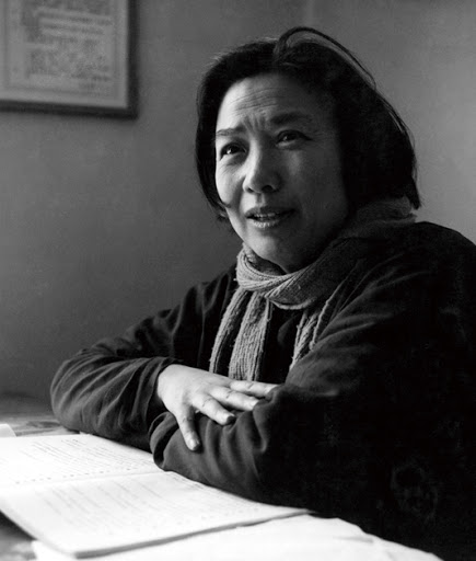 Sun Weishi